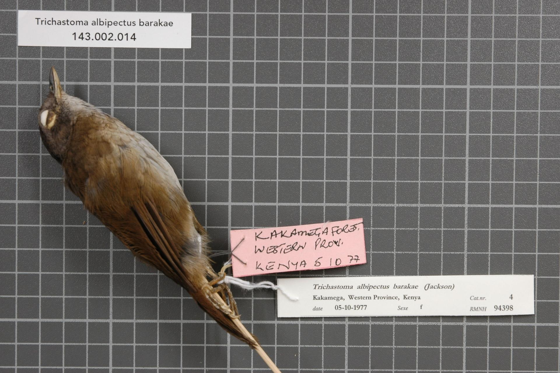 Trichastoma albipectus barakae (Jackson, 1906)